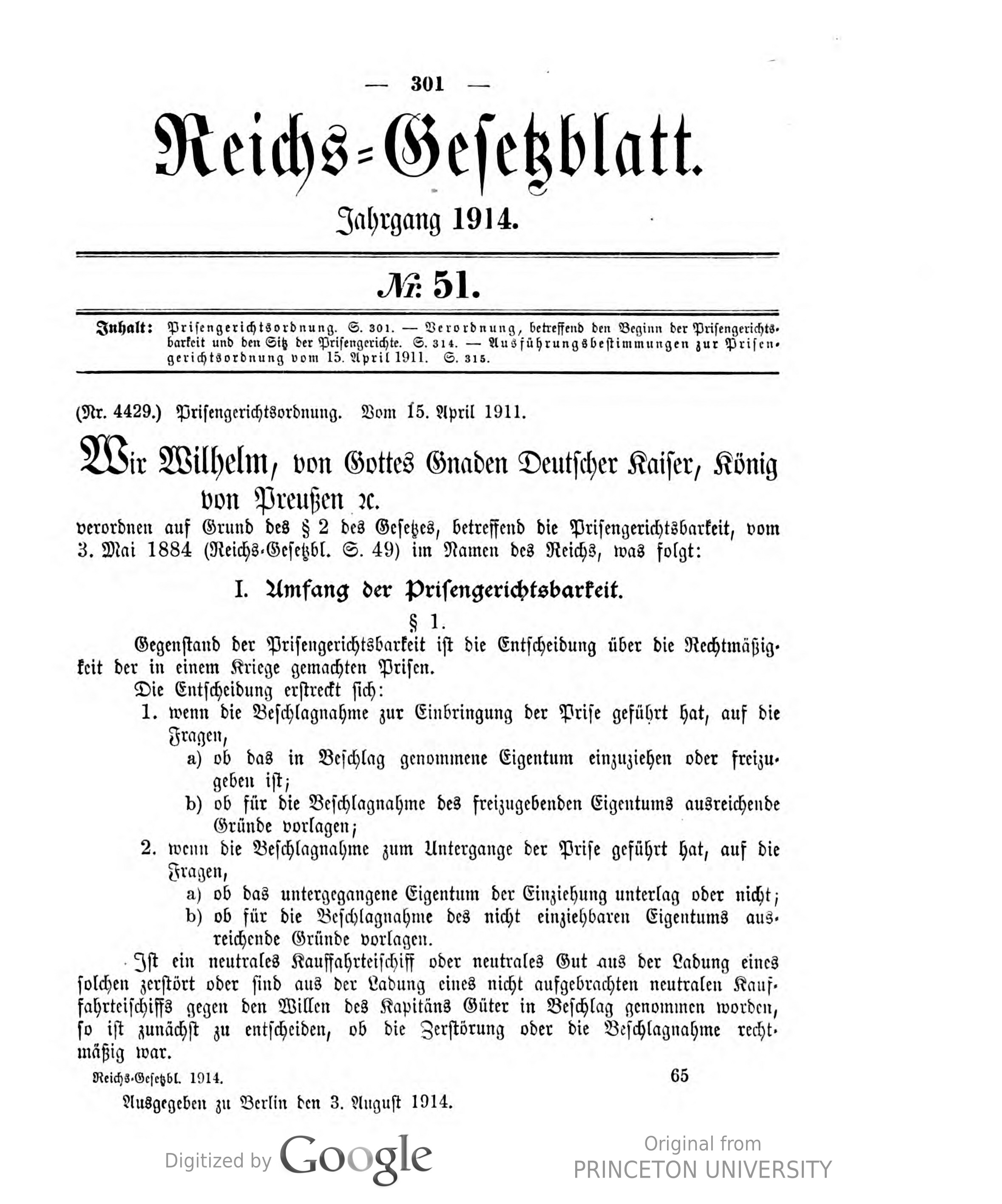 Scan from the Imperial Law Gazette of Germany, 1914